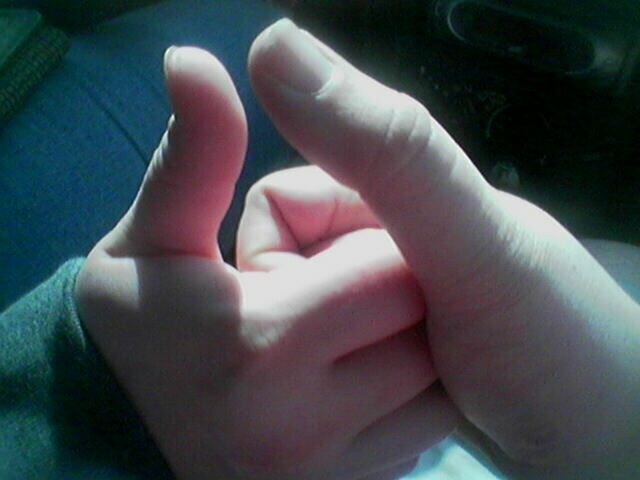 me and allison thumb wrestling